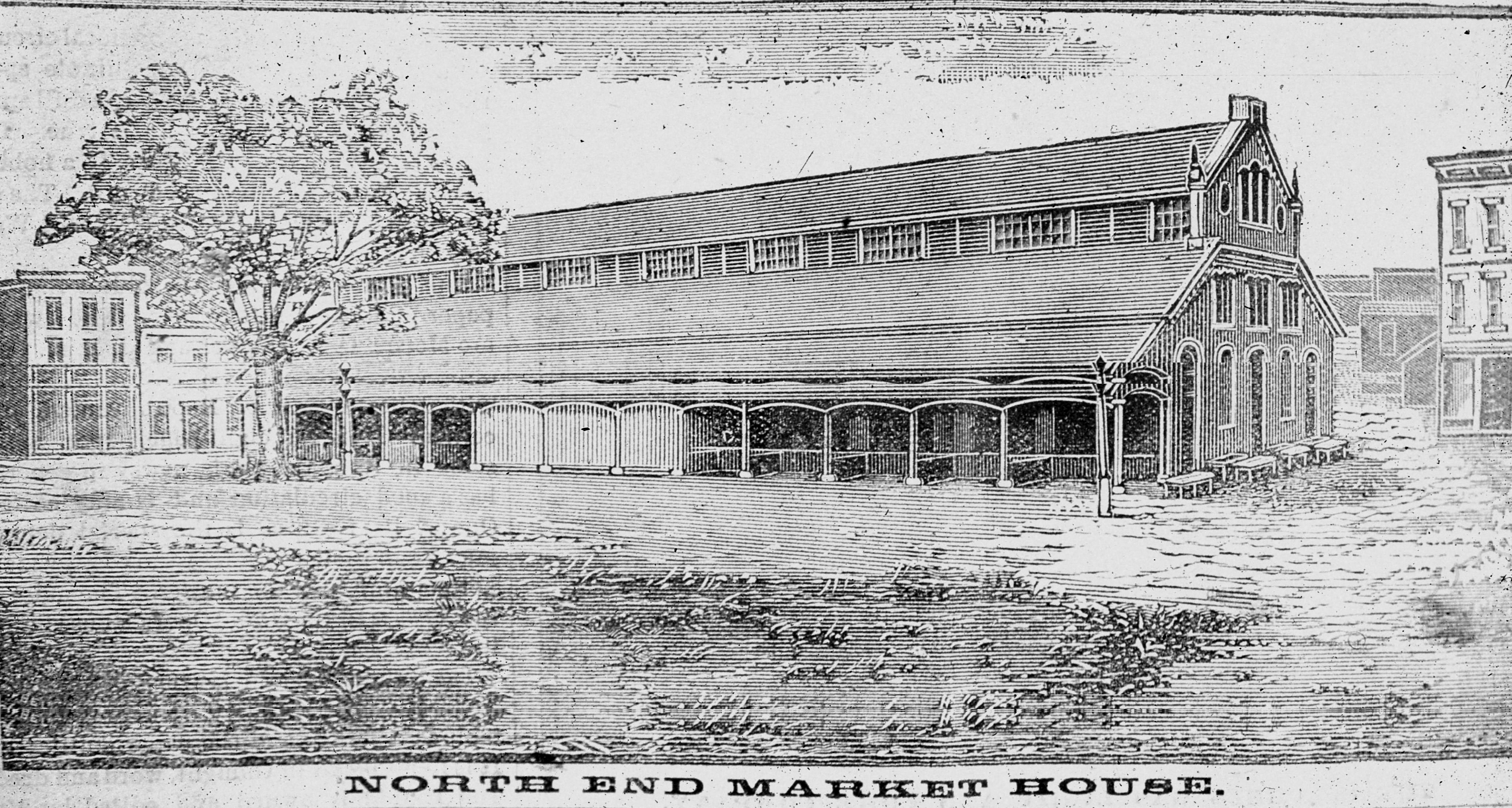 "North Market was begun August 24, 1875 and burned February 7, 1948. Its replacement lasted from October 22, 1948 to November 24, 1995. The current North Market opened November 11, 1995." From Columbus Dispatch, April 2, 1888.